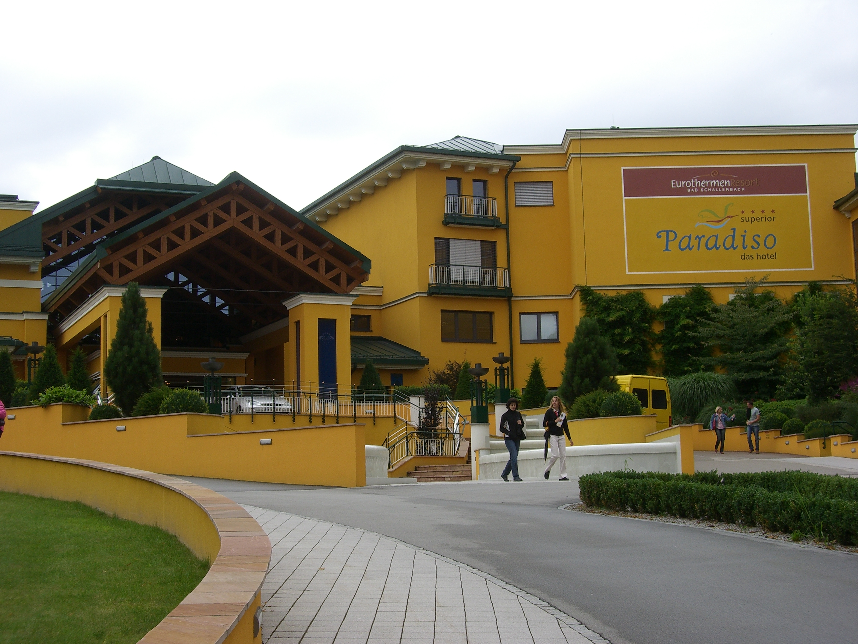 Hotel Paradiso